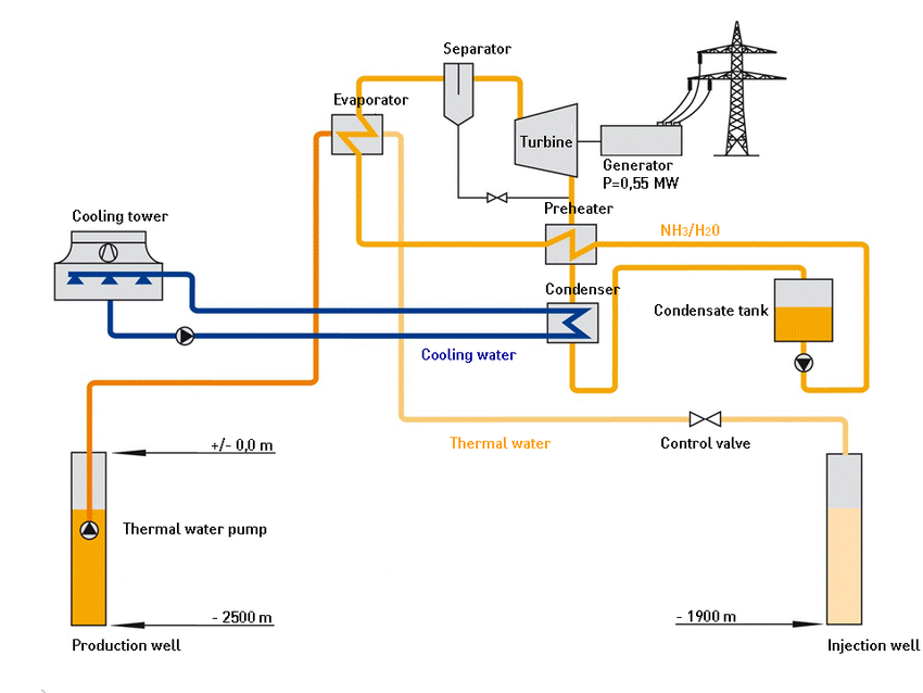 Shema geotermalnog postrojenja koje koristi Kalina ciklus